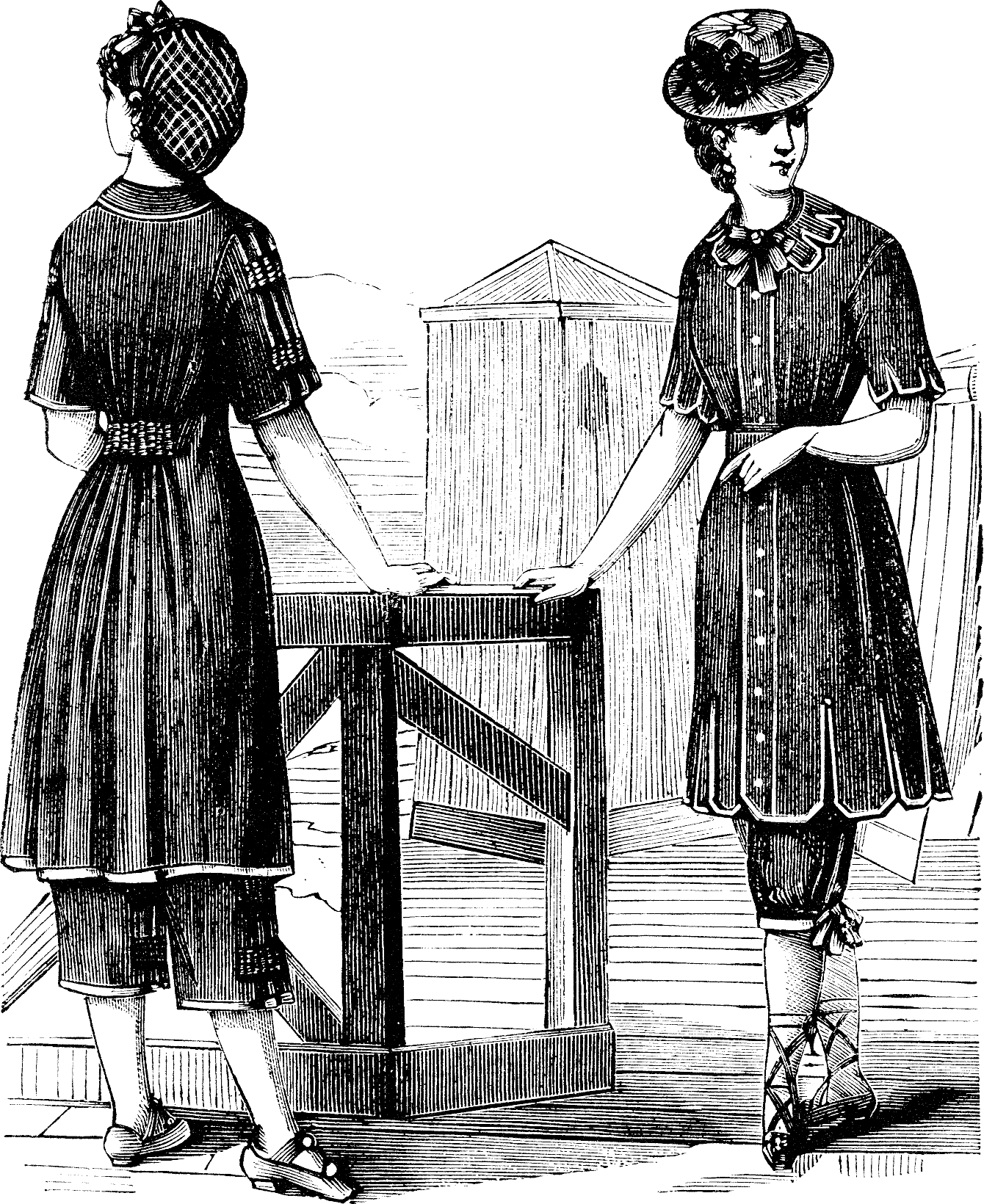 swimwear, in right she has a straw hat, Peterson's Magazine